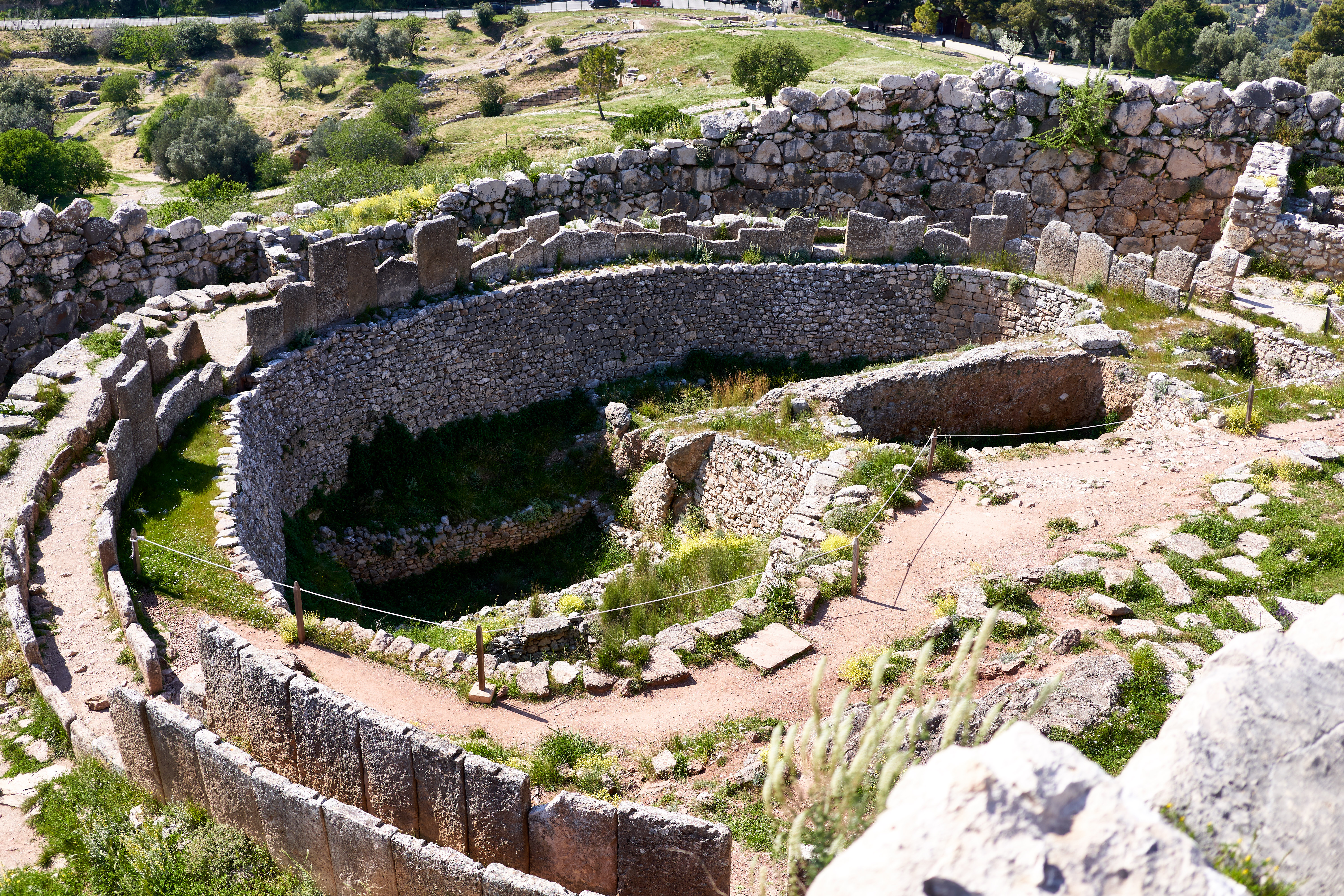 GRAVE CIRCLE A: “It forms part of an extensive cemetery of the Middle Helladic and the early Late Helladic period, which spread west of the citadel. It was used exclusively for royal burials during the 16th century B.C. It contained six shaft graves (I-VI), five of which were excavated by H. Schliemann in 1876 and one by P. Stamatakis in the following year. The graves were marked by stone stelai and were occupied by inhumations of members of a family, furnished with particularly luxurius grave goods, which are today exhibited in the National Archaeological Museum of Athens. Initially, Grave Circle A lays extra muros. Around 1250 B.C., however, and with the extension of the cyclopean wall westwards, the royal burial ground was included within the area of the citadel and was enhanced by the construction of a circular enclosure.” Text: Information board at the archaeological site.